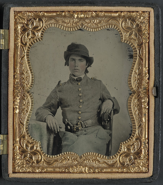 Unidentified soldier in Confederate cavalry uniform and snake belt buckle with two revolvers between 1861 and 1865